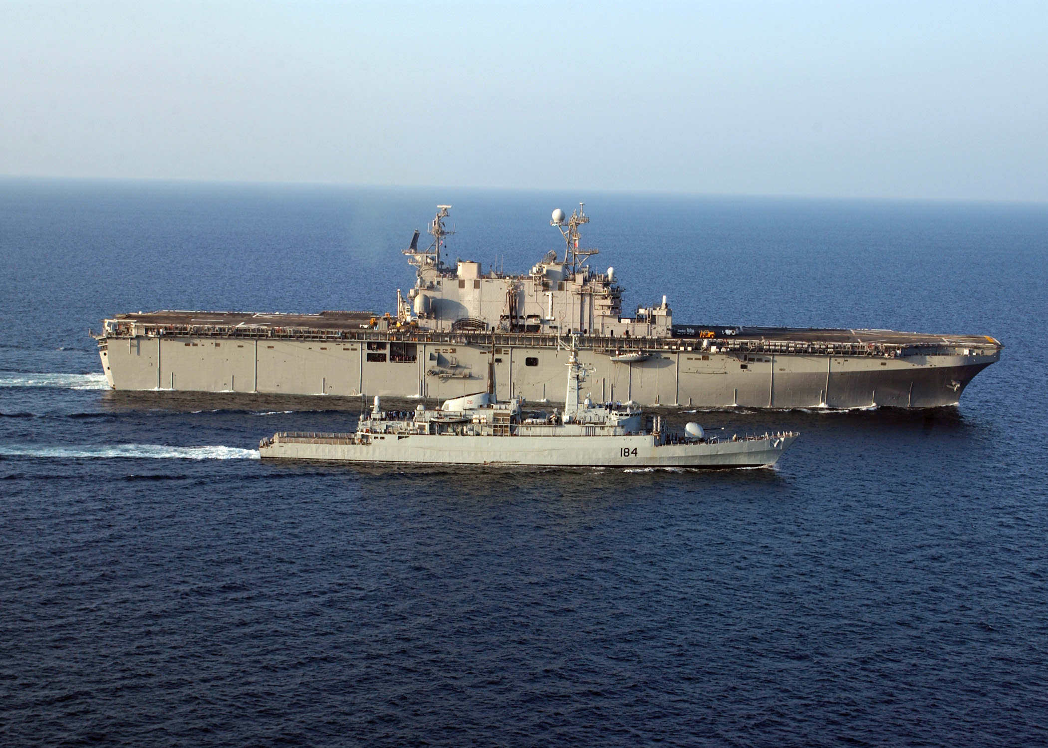 Persian Gulf (Nov. 8, 2005) - The Pakistani Navy frigate PNS Badr (D 184) steams alongside the amphibious assault ship USS Tarawa (LHA 1) in the Northern Persian Gulf. Tarawa is the flagship for Expeditionary Strike Group One (ESG-1), commanded by Rear Adm. Michael LeFever, who is also coordinating U.S. Forces for the Pakistani led relief effort for the earthquake that struck the northern part of the country on October 8th. The ships of ESG-1 have made several trips to Pakistan to unload relief supplies.